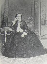 Maria Beadnell, Charles Dickens's first love, later in life.